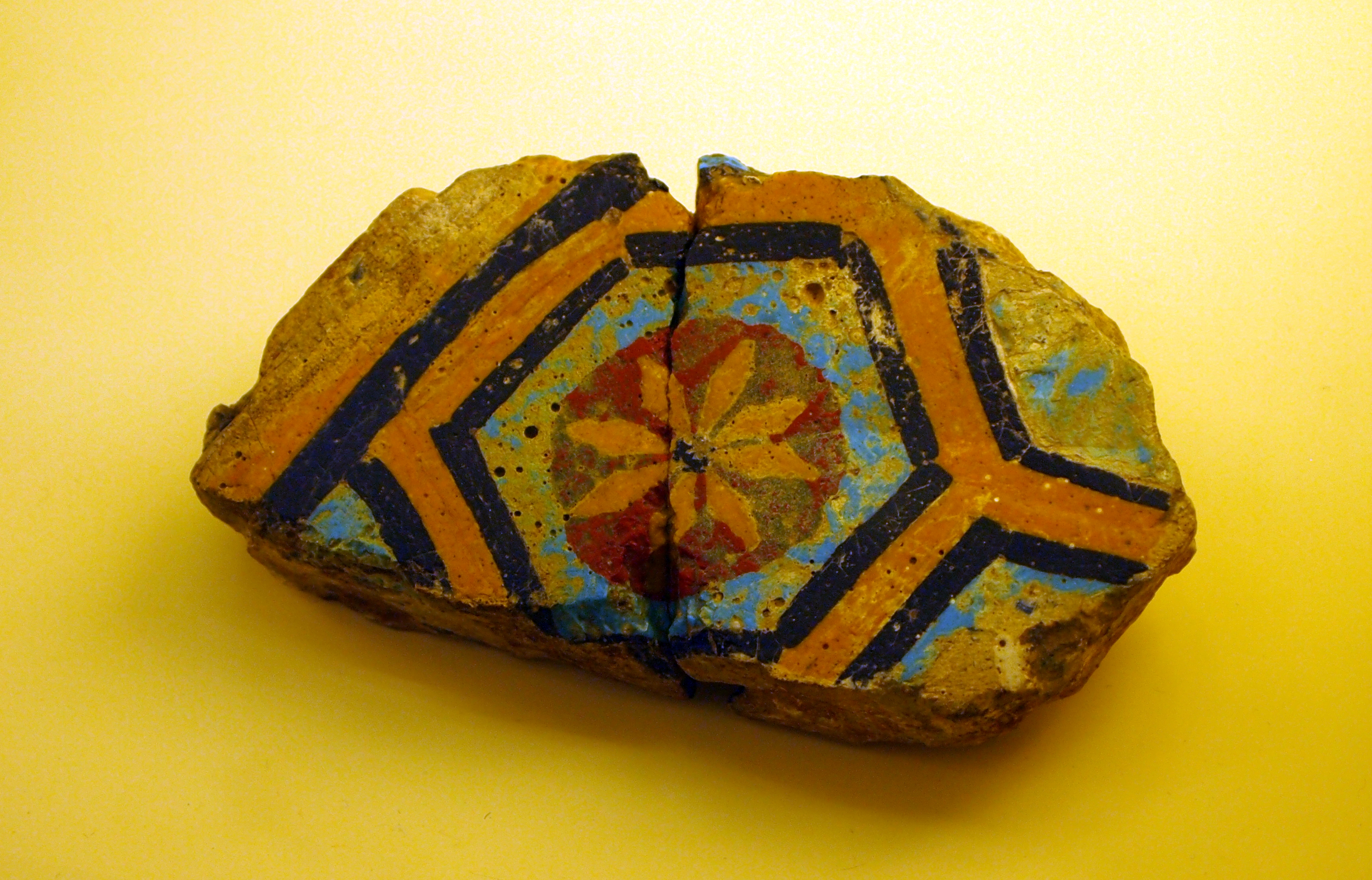 Fragment of ceramics